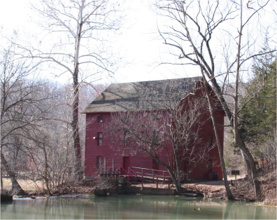 Alley Spring Roller Mill in Alley Spring State Park, Ozark Wild and Scenic Riverways, Missouri, USA